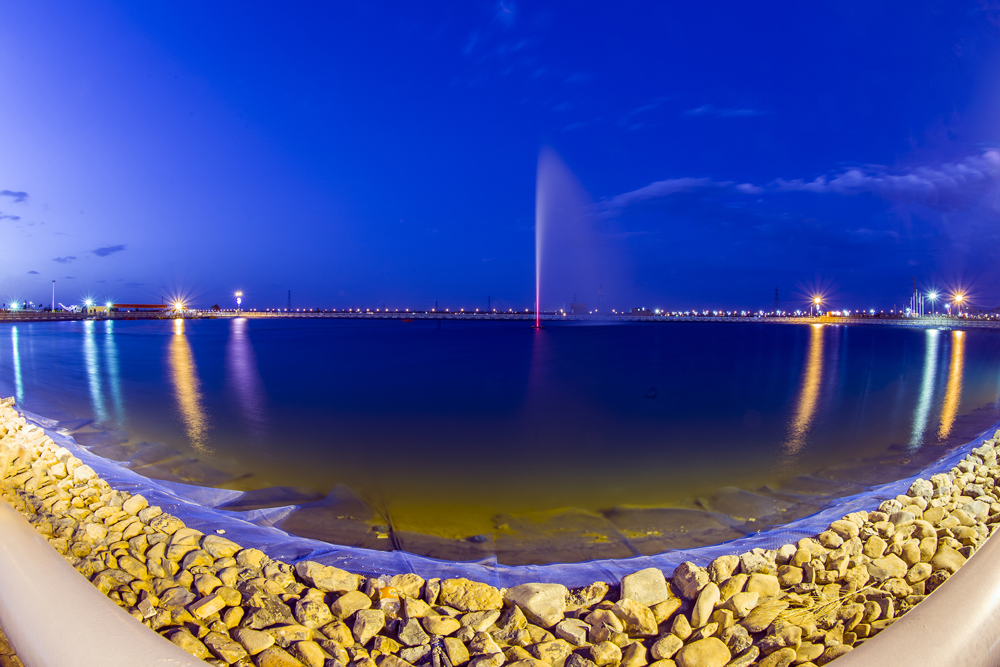 Young artificial lake. Tourist attractions in Qom